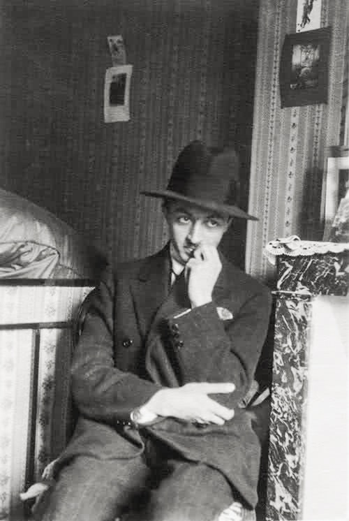 Sadeq Hedayat in Paris. The subject died in 1951. It is likely this photo was published around 1927, thus its copyright probably expired around 1957.